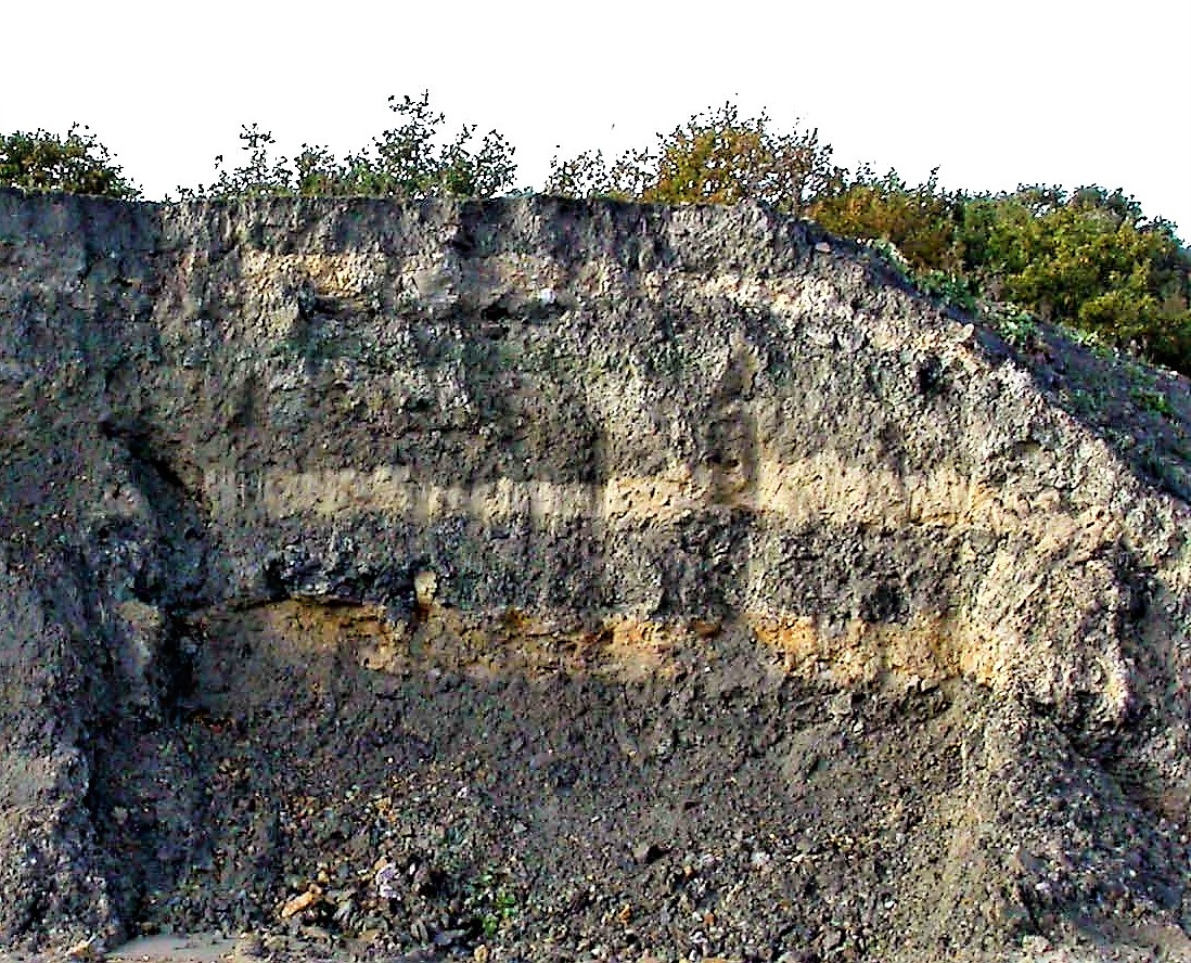 Bexhill Brick Pit in East Sussex, England. A cliff where clay has been extracted for brick and tile making shows the strata of the Hastings Beds. The browner layers are sandstones, the greyer layers are clays.